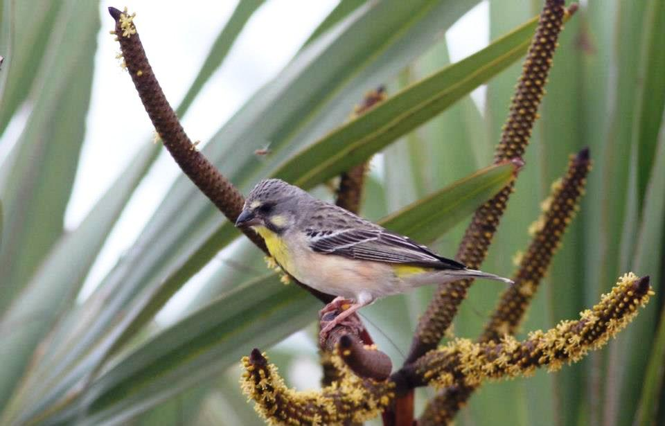 Lemon-breasted canary on a palm inflorescence at Ponto da Barra, Inhambane province, Mozambique